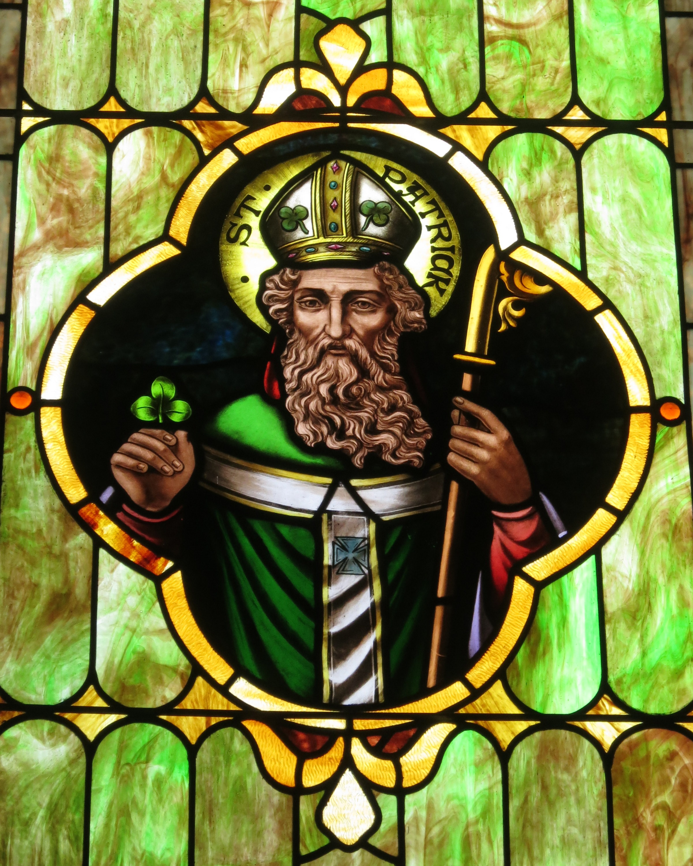 Immaculate Conception Catholic Church (Port Clinton, Ohio) - stained glass, St. Patrick